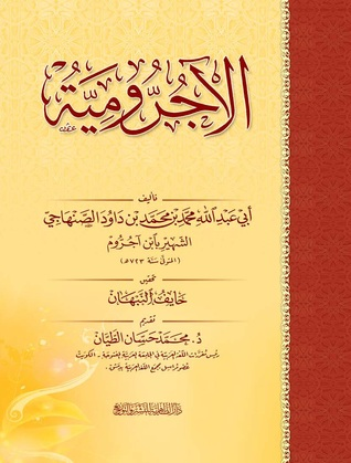 Ajārūmīya book cover